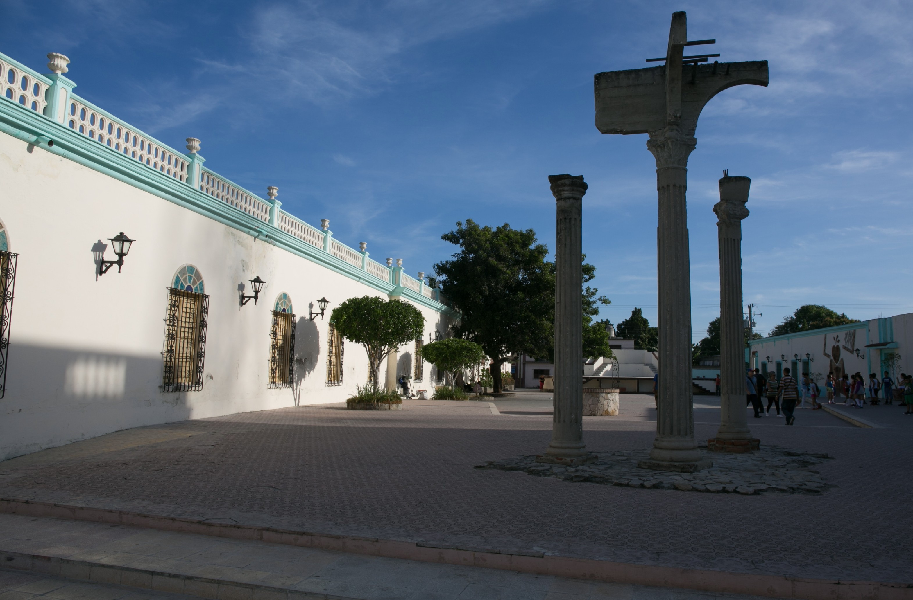 Cuba, Las Tunas, calle Francisco Varona